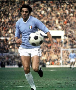 Rome (Italy), Olympic Stadium, November 3, 1974 S.S. Lazio — F.C. Internazionale 1-2, Matchday 5 of the Italian League 1974–75 Serie A: Lazio's forward Giorgio Chinaglia in action.